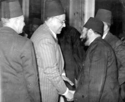 Makram Ebaid with Hassan Elbanna